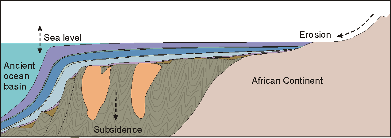 Schematic section showing deposition of Cape Supergroup on surface of granite intruded Malmesbury rocks.